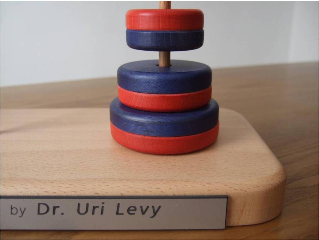 MToH three disk one floating realization in JPEG - 51KB format